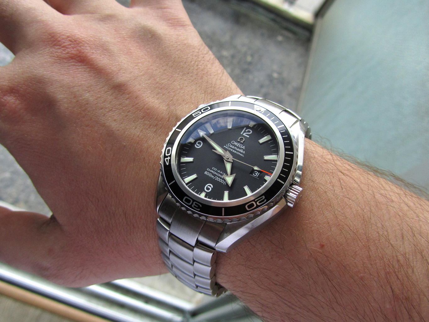 Omega Seamaster Planet Ocean watch